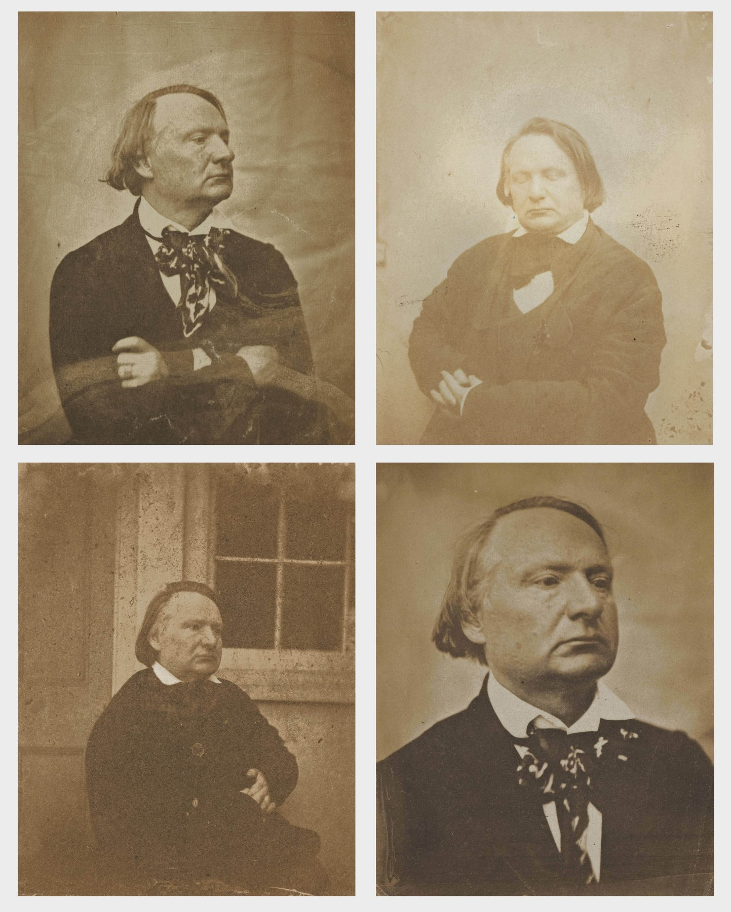 Portraits of Victor Hugo, Jersey, 1853-1855